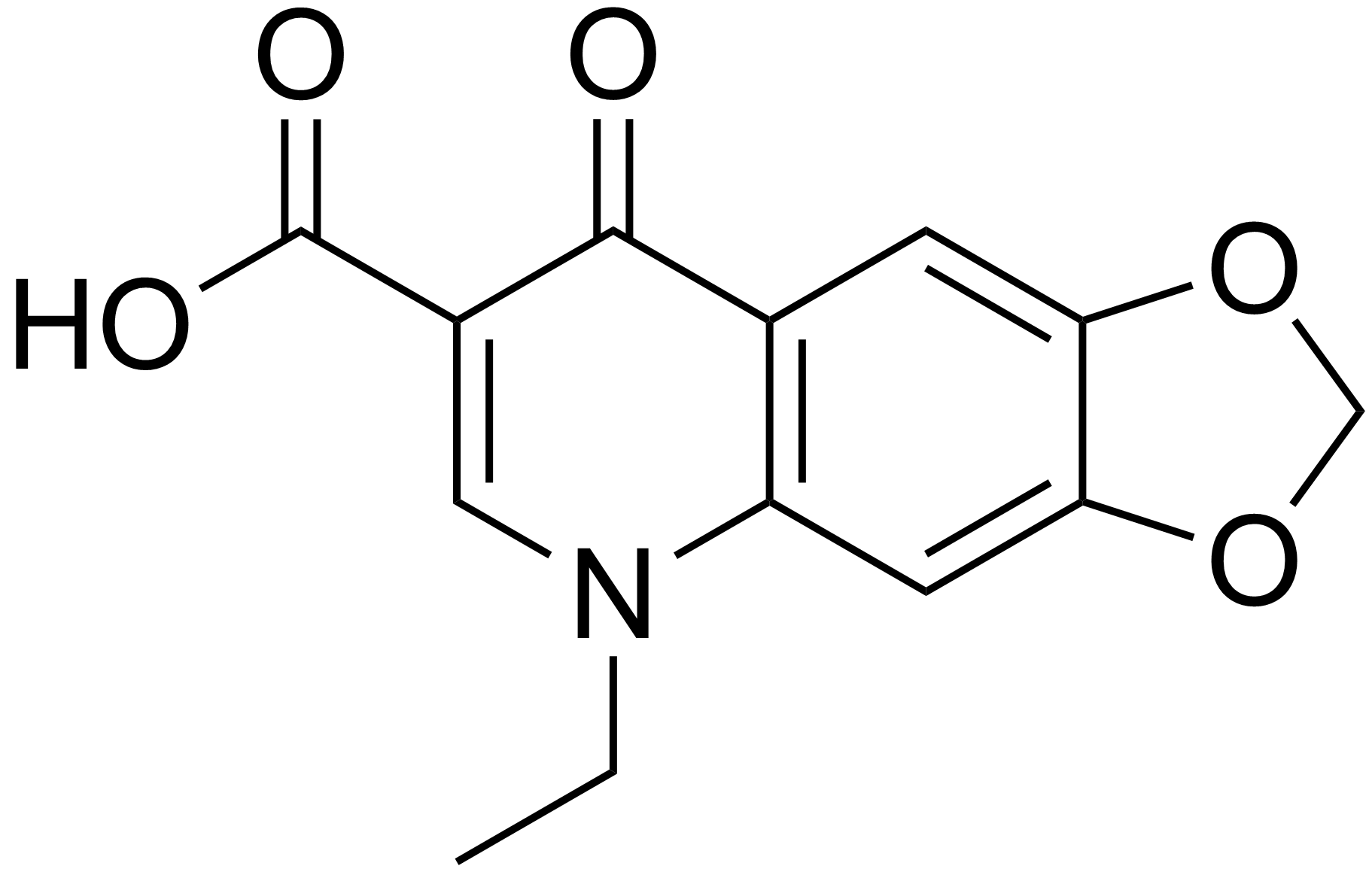 Chemical structure of oxolinic acid